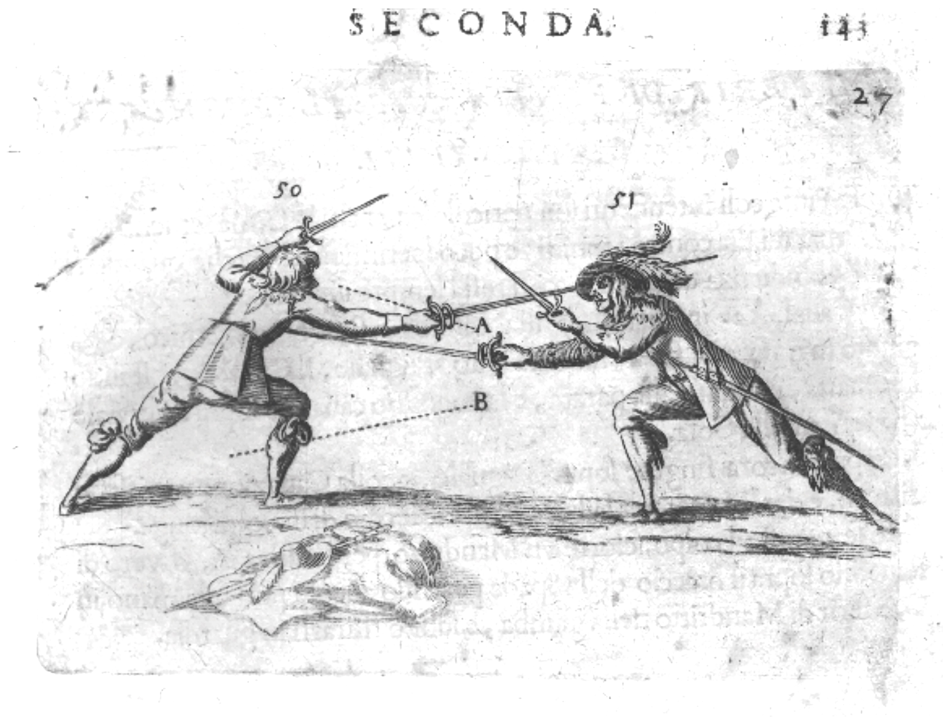 Парирование и нанесение удара одновременно